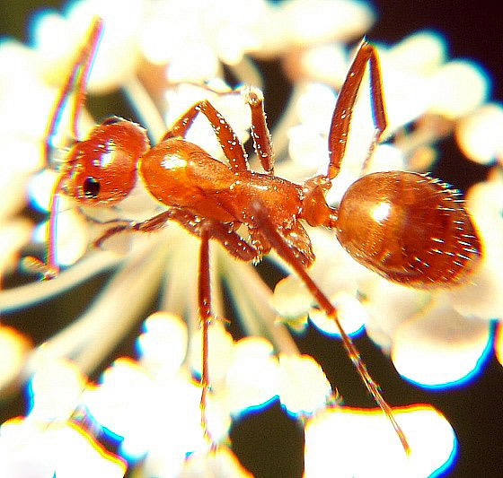 jpeg image, Worker Ant: Formica sp. (pallidefulva group). Live adult sterile female ant photographed at Winfield Mounds Forest Preserve, DuPage County IL USA.